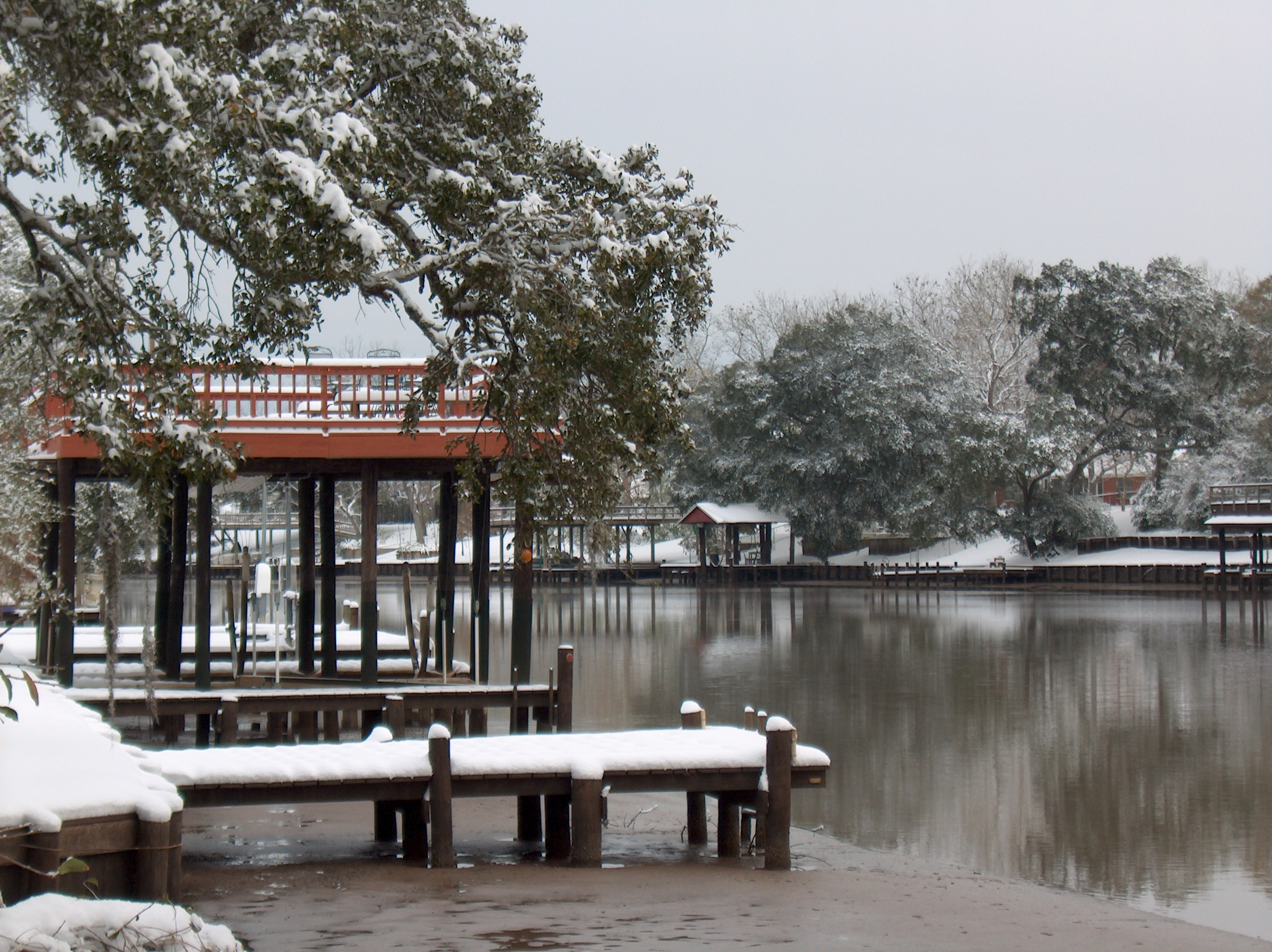 Photo taken by submitter. San Bernard River after the 2004 Christmas Eve Snowstorm, a rarity for this part of Texas.